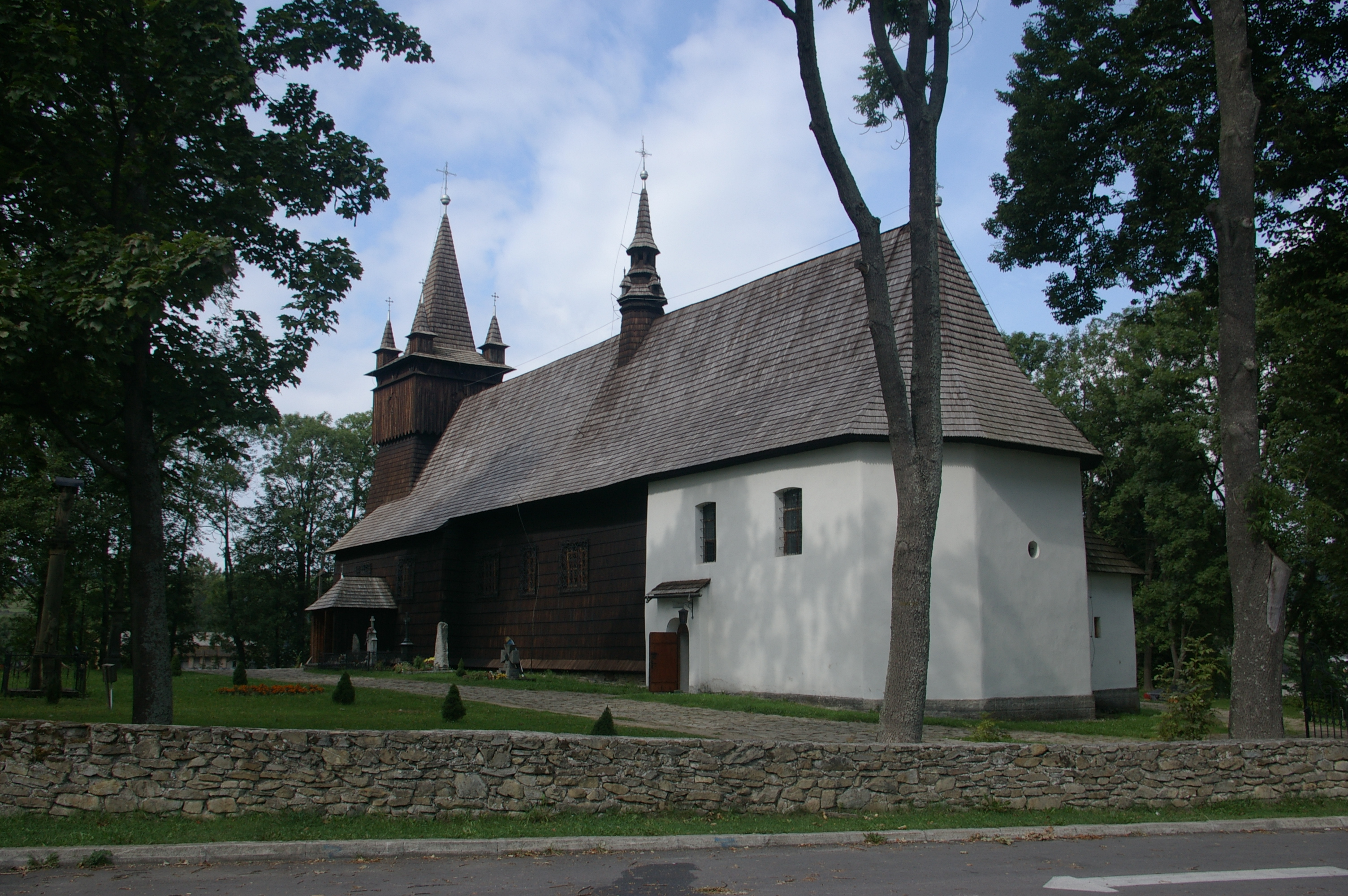 John the Baptist church in Orawka, Poland